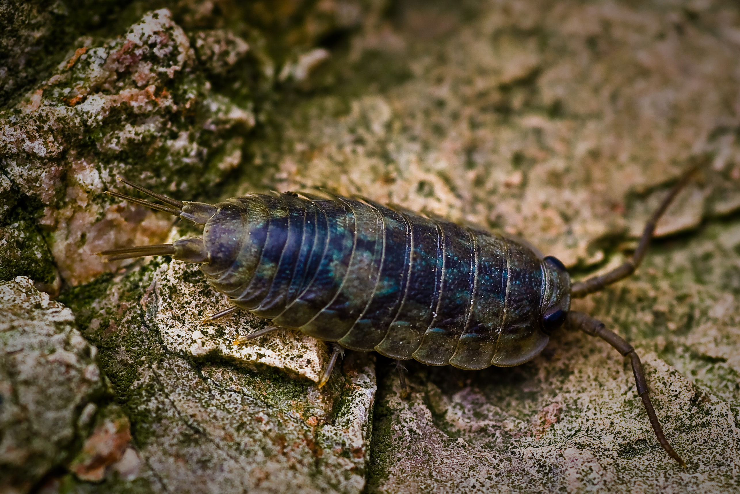 Sea slater (Ligia oceanica) on the rocks at Battery Point, Portishead, England